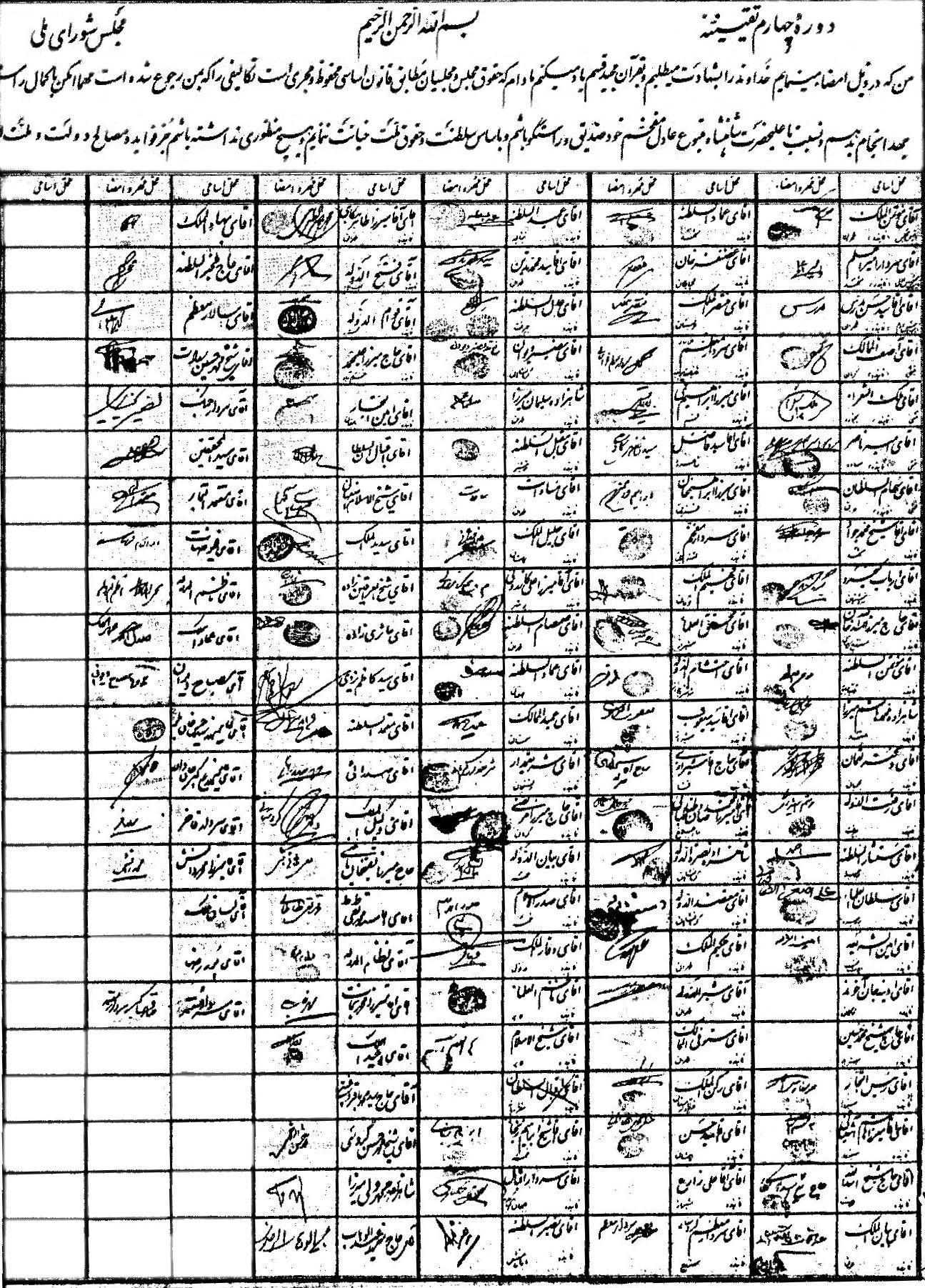 The Oath of Office - Oath of Allegiance by the members of the fourth house of parliament -1921-06-21 to 1923-06-20 or 1300-04-01 to 1302-03-30